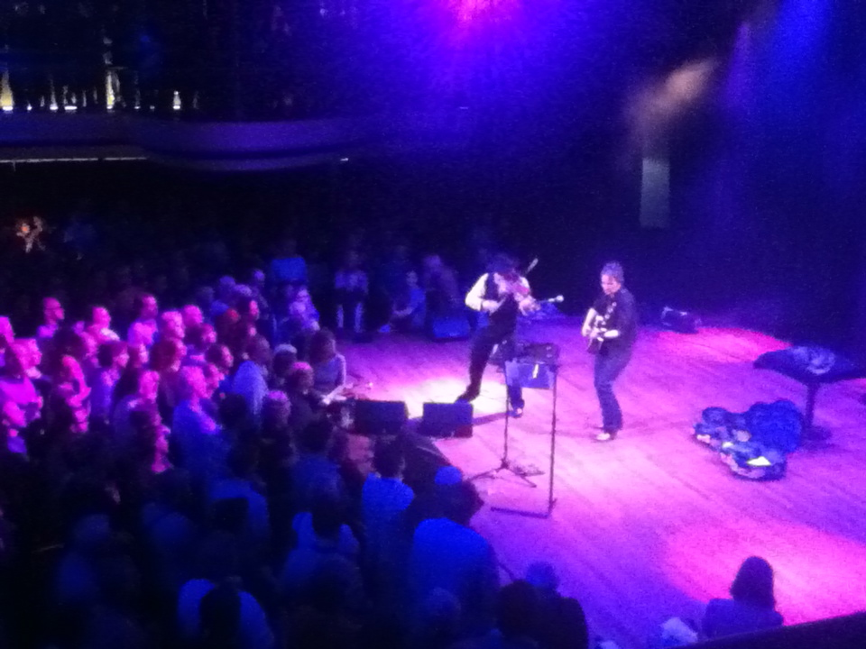 Mary Gauthier at Ramblin' Roots festival 2014 in TivoliVredenburg, Utrecht, The Netherlands